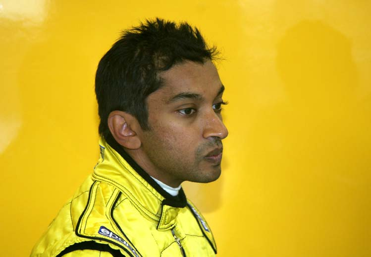 Narain Karthikeyan at Silverstone test in 2007 February.